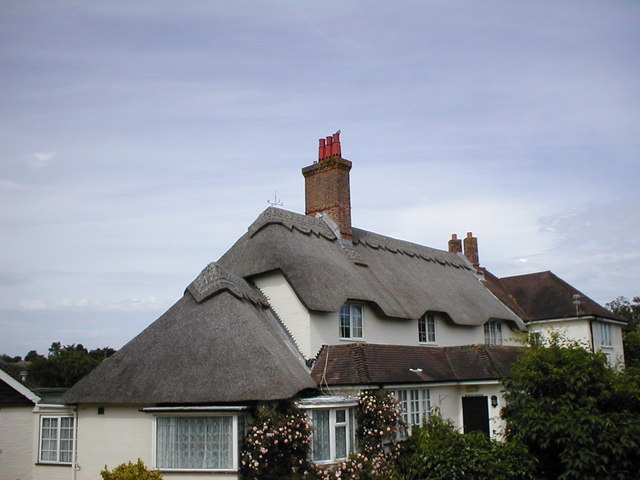 Thatched Cottage Now demolished, to make way for flats.